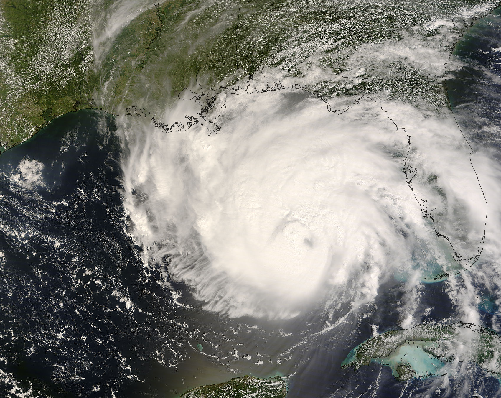 Hurricane Gustav approaches the Gulf Coast with windspeeds of 155 mph on August 31, 2008